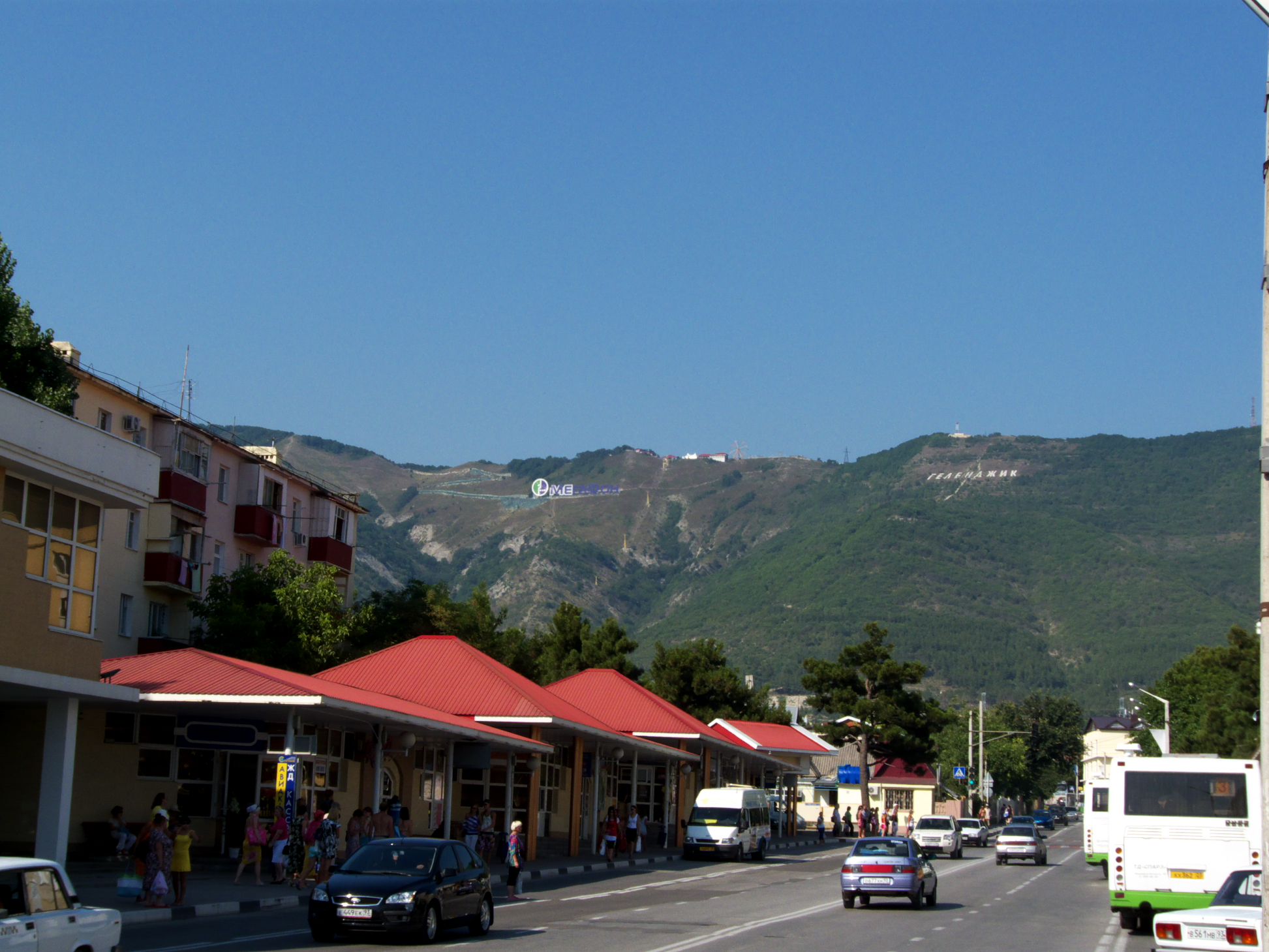 inscription "Gelendzick" on a mountain Markotkh